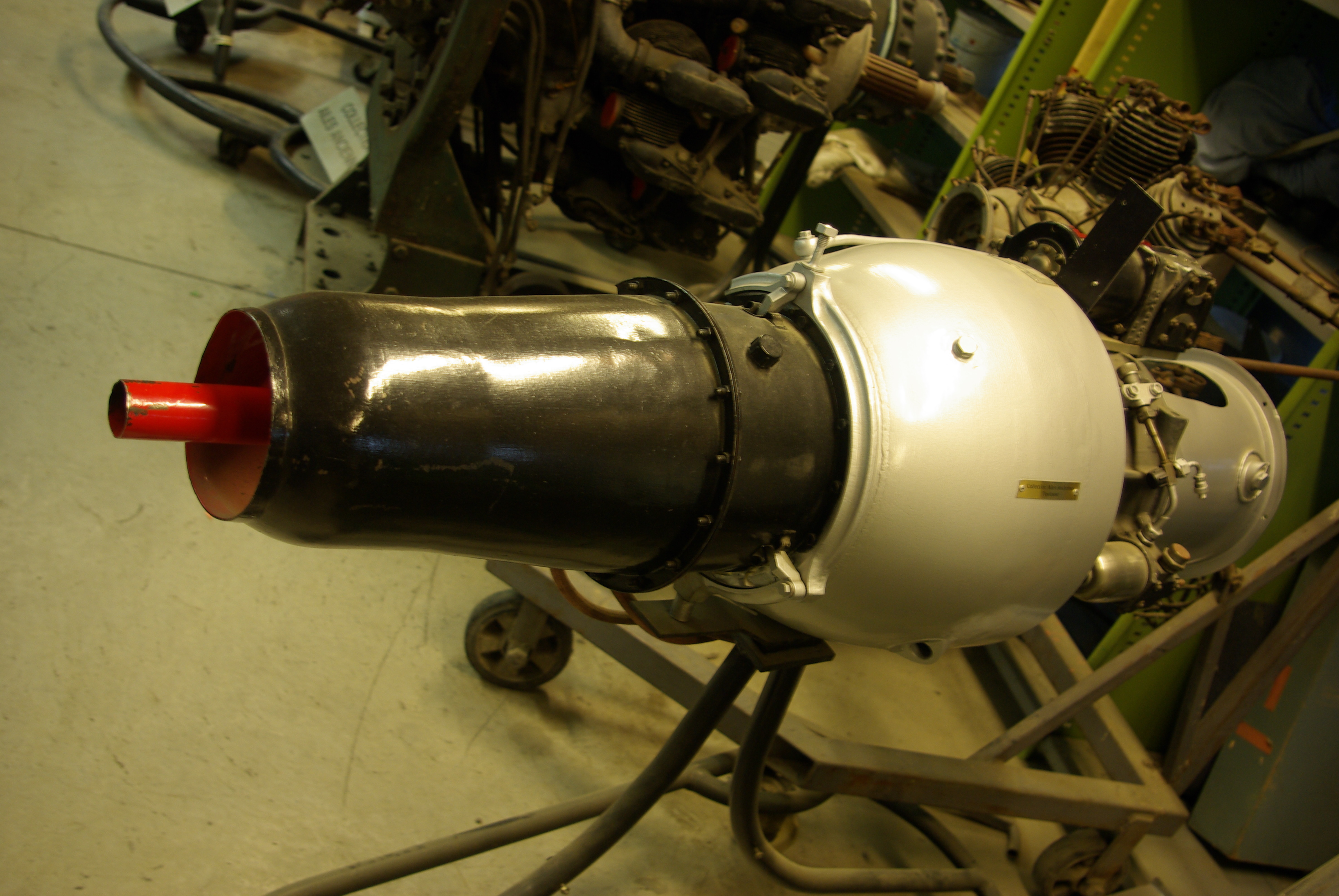 Turbomeca Palas